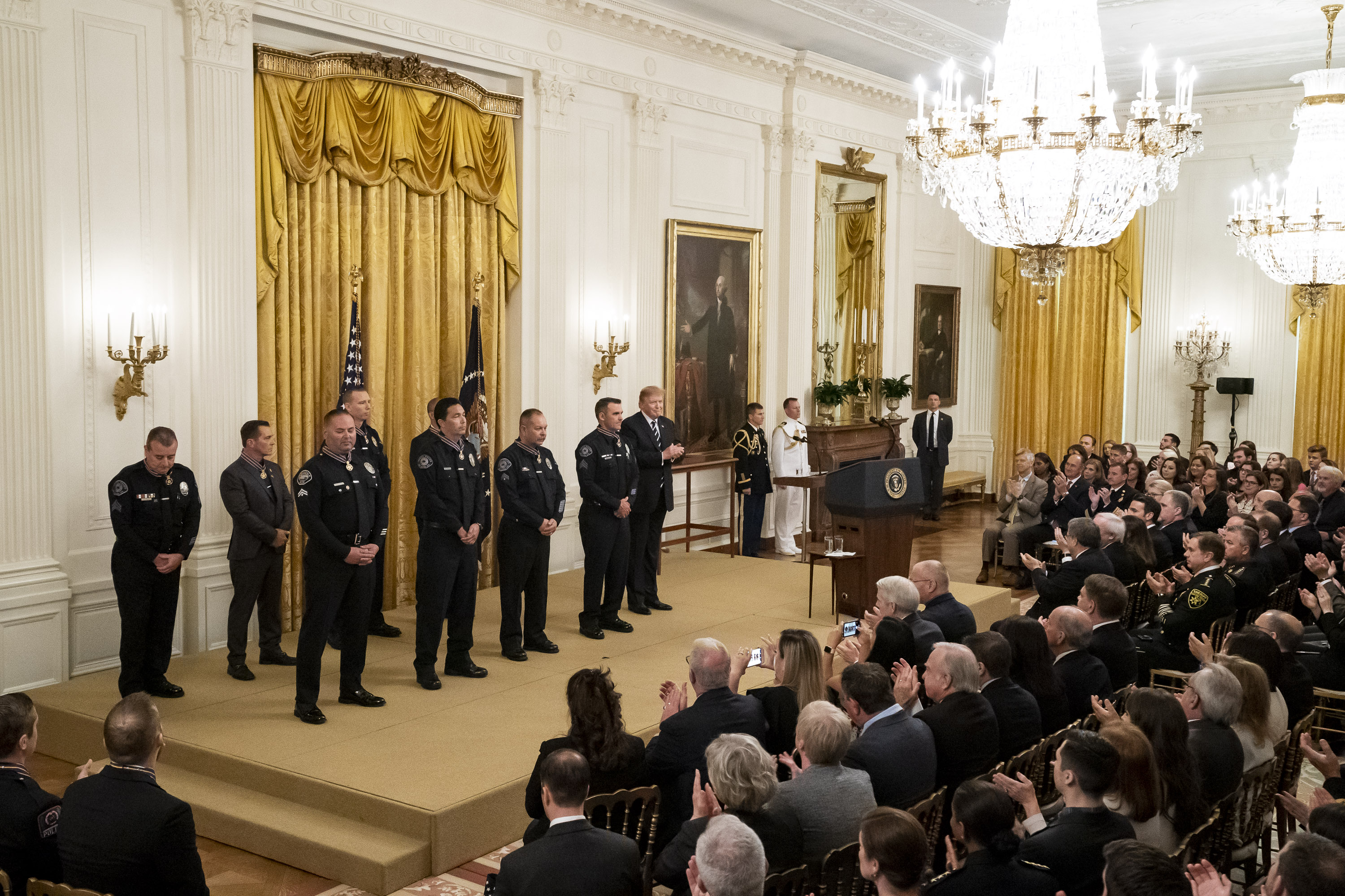 President Donald J. Trump delivers remarks at the Public Safety Officer Medal of Valor Ceremony Wednesday, May 22, 2019, in the East Room of the White House. (Official White House Photo by Tia Dufour)